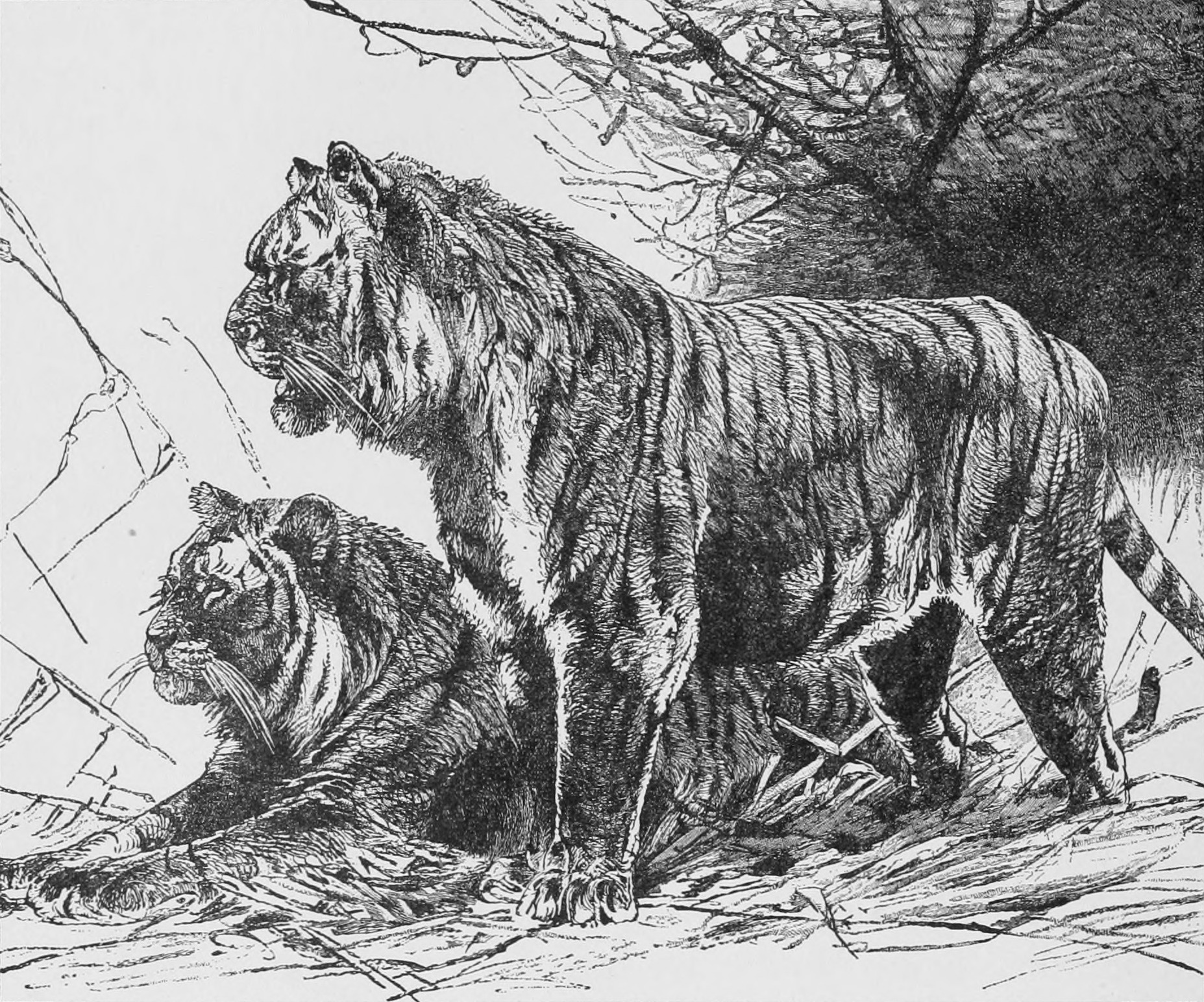 Turanian Tiger, Caspian Tiger Caspian Tigers lived in China, Tajikistan, Iran, Afghanistan and Turkey. They were hunted for their furs and to protect livestock. A ban on hunting the Caspian Tiger in the USSR in 1947 followed their greatest destruction in the 1930s. The last Caspian Tiger reported shot was in 1957.